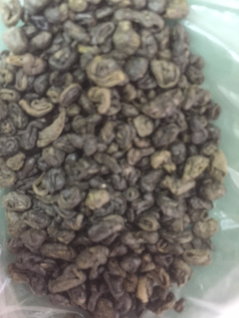 изглед зеленог чаја